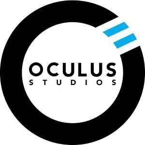 This is the Logo of Oculus Studios.